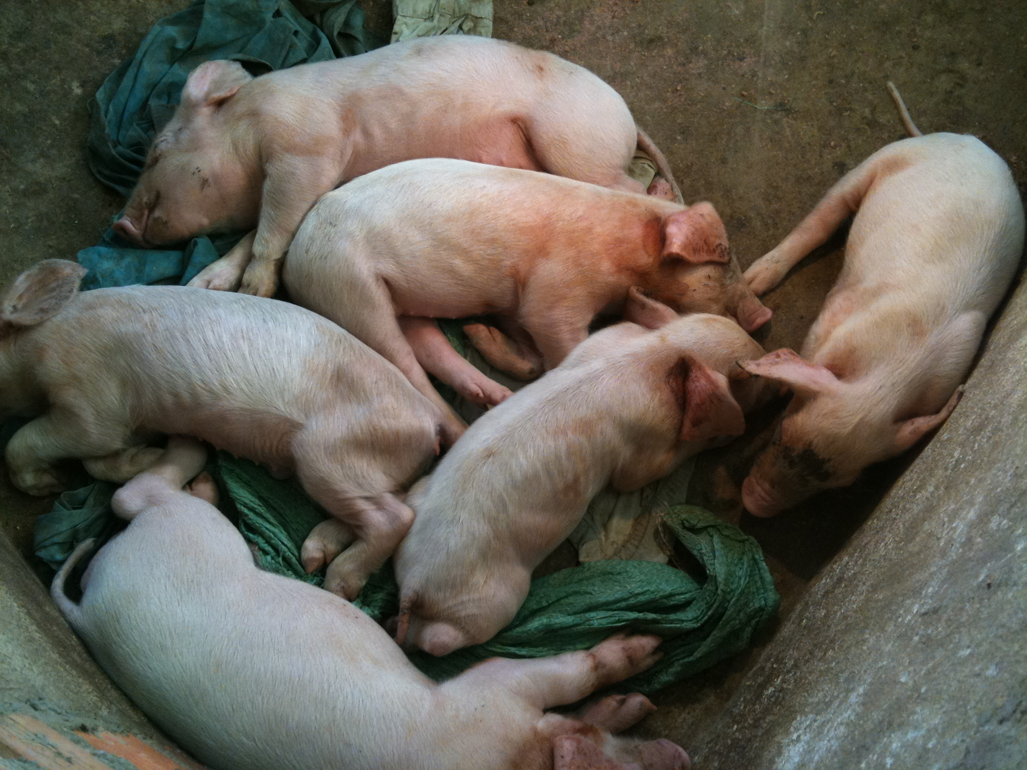 Sleeping piglets on a farm in Can Tho, Vietnam.